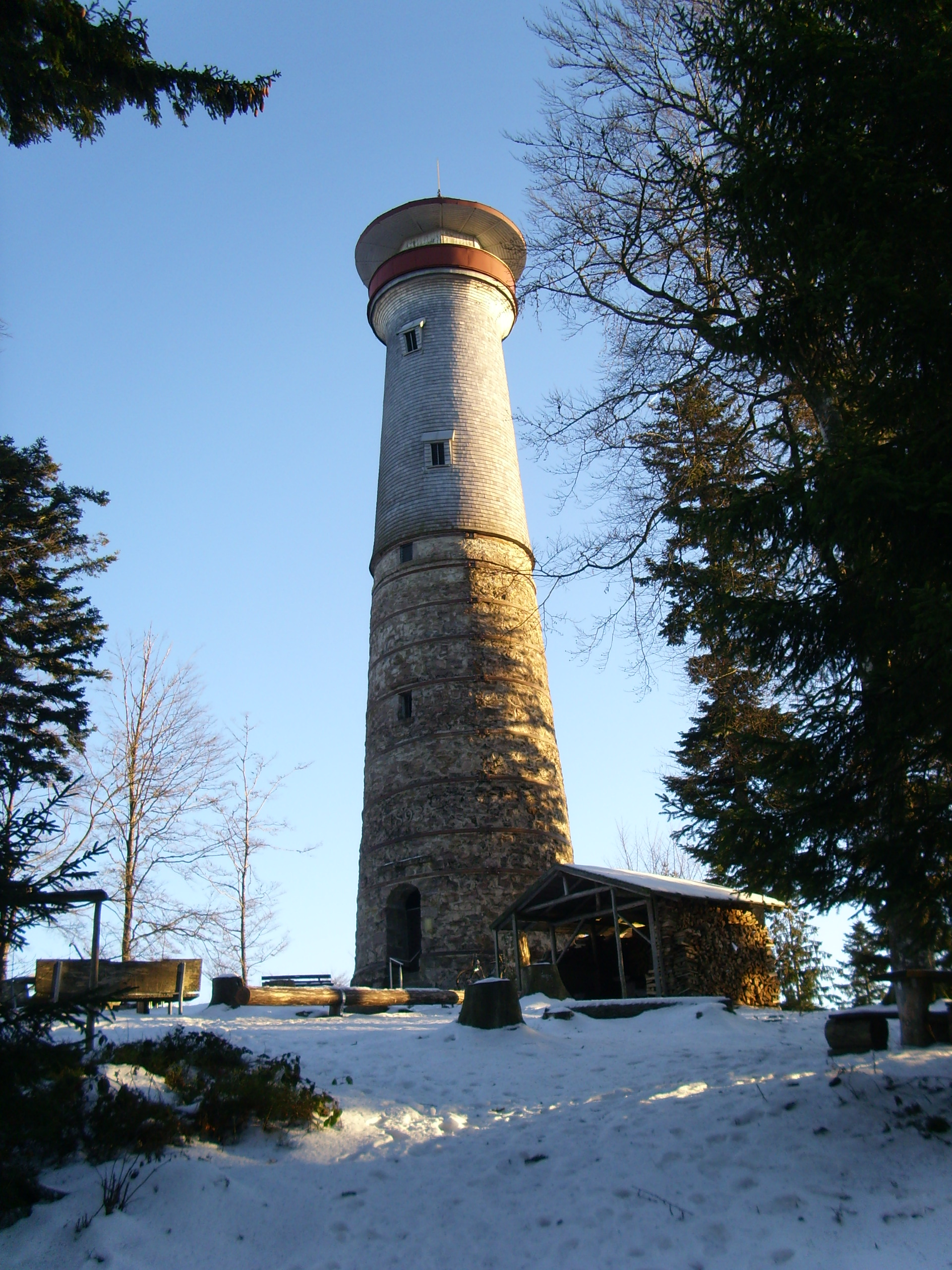 The "Hohe Möhr" is a Mountain in the South Area of the Black forest. On the top of the mountain is a tower. From the tower you can look to Basel and on the other side to the mountain "Belchen", "Feldberg", "Herzogenhorn" and "Hochblauen". The Tower is named like the mountain "Hohe Möhr" or "Aussichtsturm Hohe Möhr".